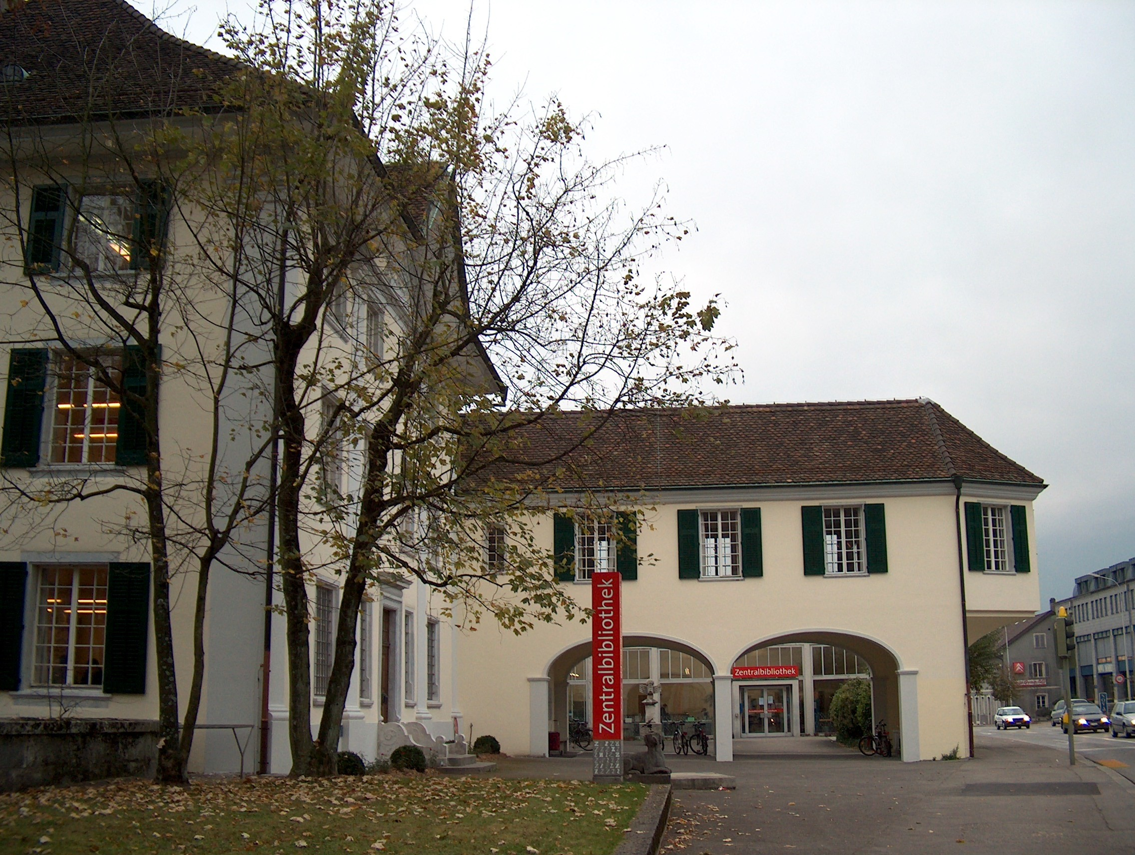 Zentralbibliothek Solothurn, Schweiz / Central Library of Solothurn, Switzerland. Picture taken by myself, user Gestumblindi.